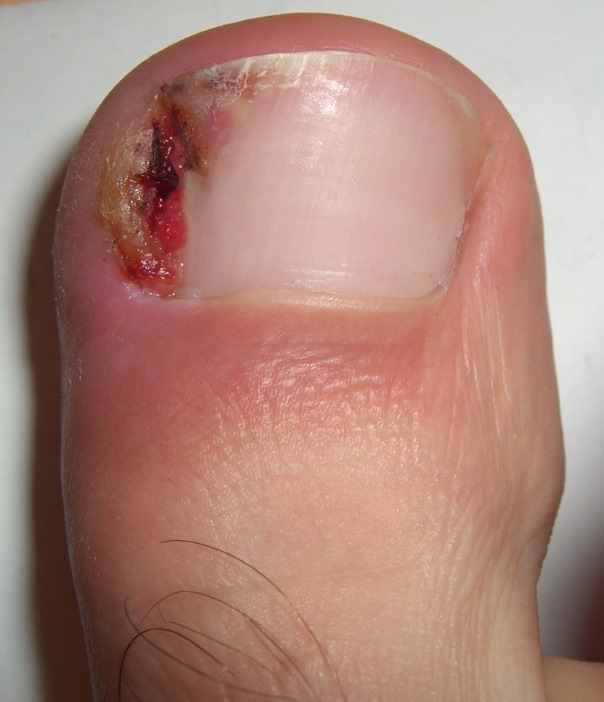 Clear picture showing the ingrown nail and the wounded infected nail bed.